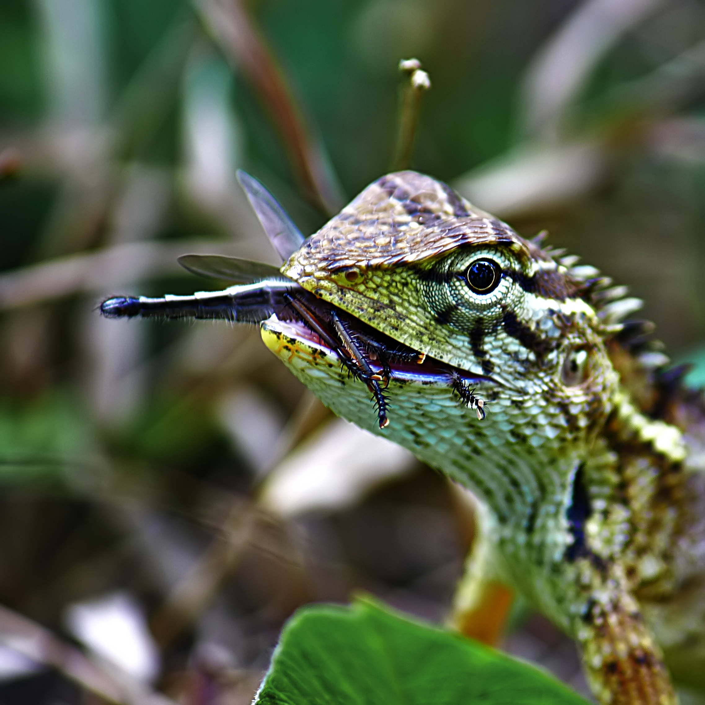 Oriental garden lizard (Calotes versicolor) eats robber fly (Asilidae) in somewhere in Gal Oya Valley / Gal Oya National Park.